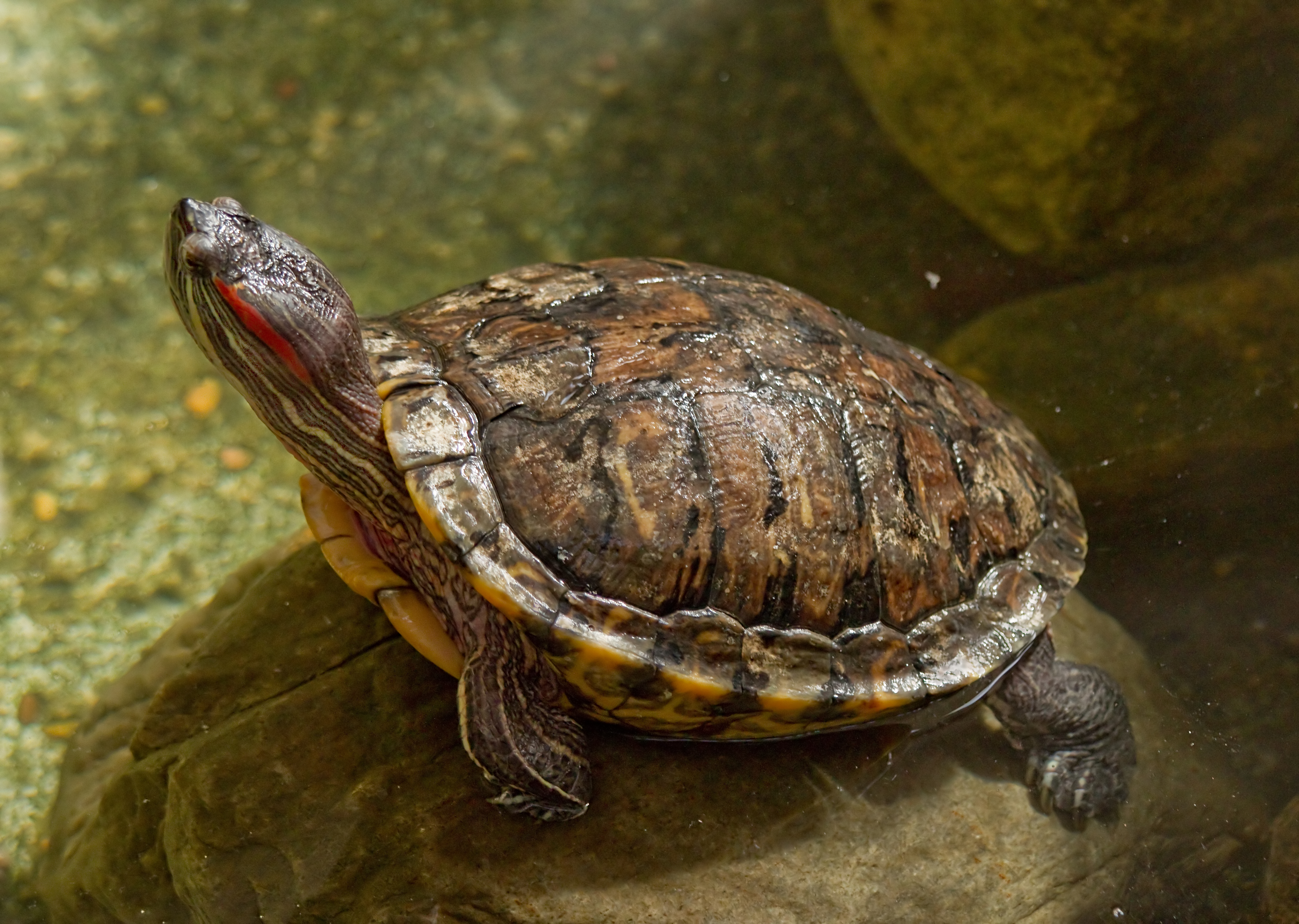 Red Eared slider at the Cincinnati Zoo